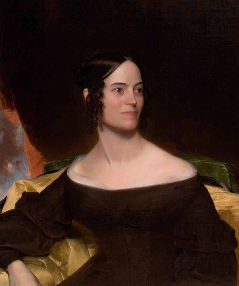 Elizabeth Steuart Calvert by William Edward West, c 1839, oil on canvas, 30.4 x 25.4 inches, Johnson Collection, Spartanburg, South Carolina